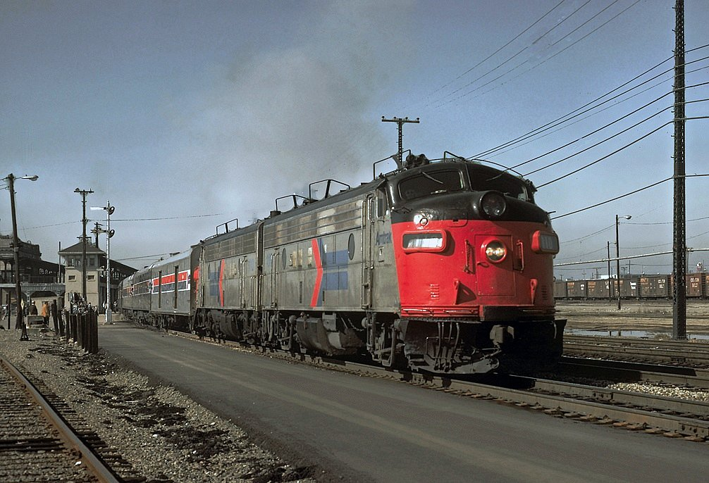 Amtrak #110 leaving Oakland inm May of 1975 with the San Joaquin. Part of the depot and the tower still stand but everything else is gone.